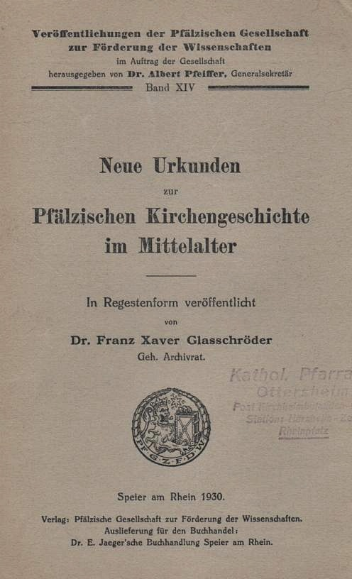 Sebst aufgenommenes Buchtitelblatt von Franz Xaver Glasschröders (1864-1933) "Neue Urkunden zu Pfälzischen Kirchengeschichte im Mittelalter", Speyer 1930